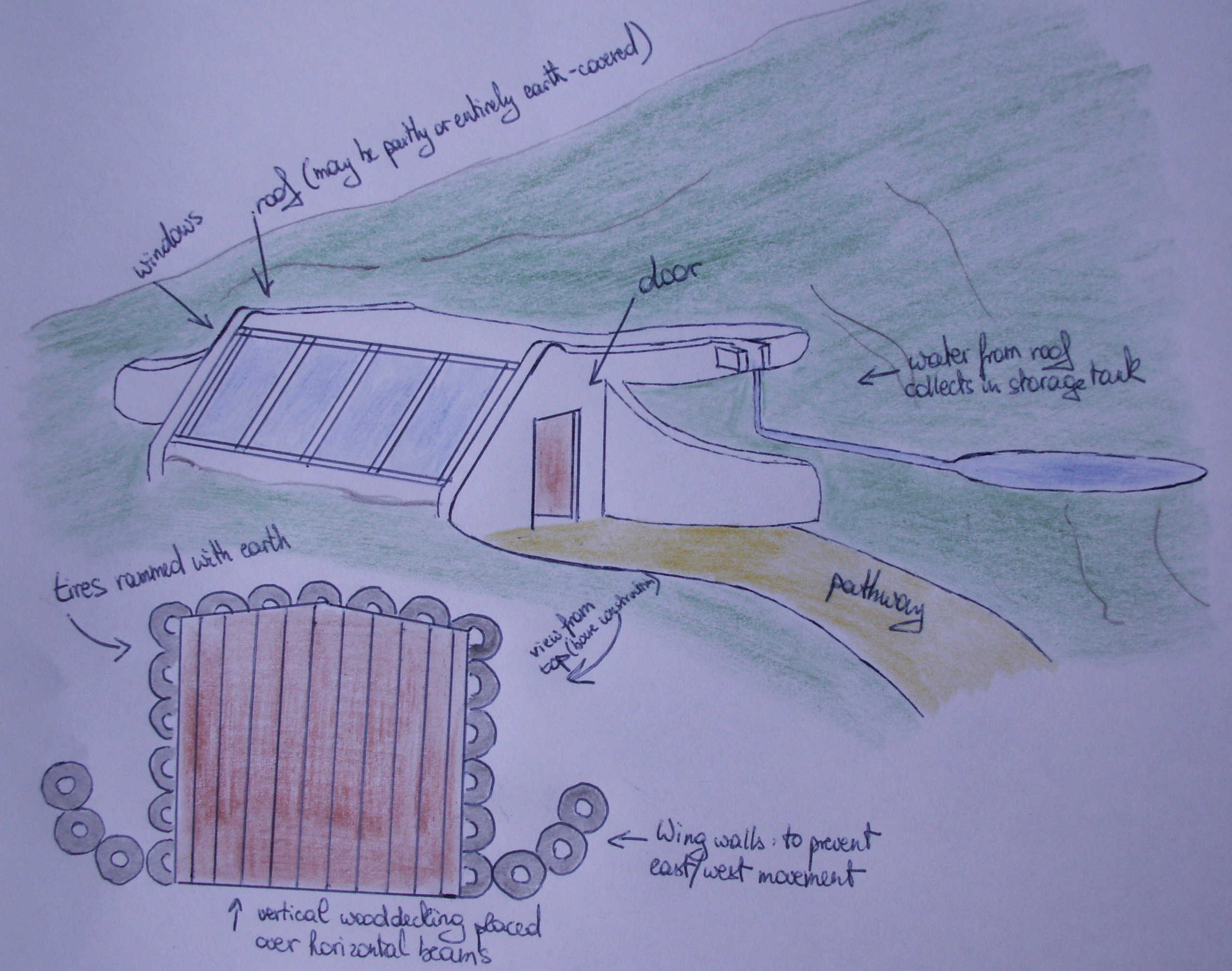 A schematic of the regular earthship design.